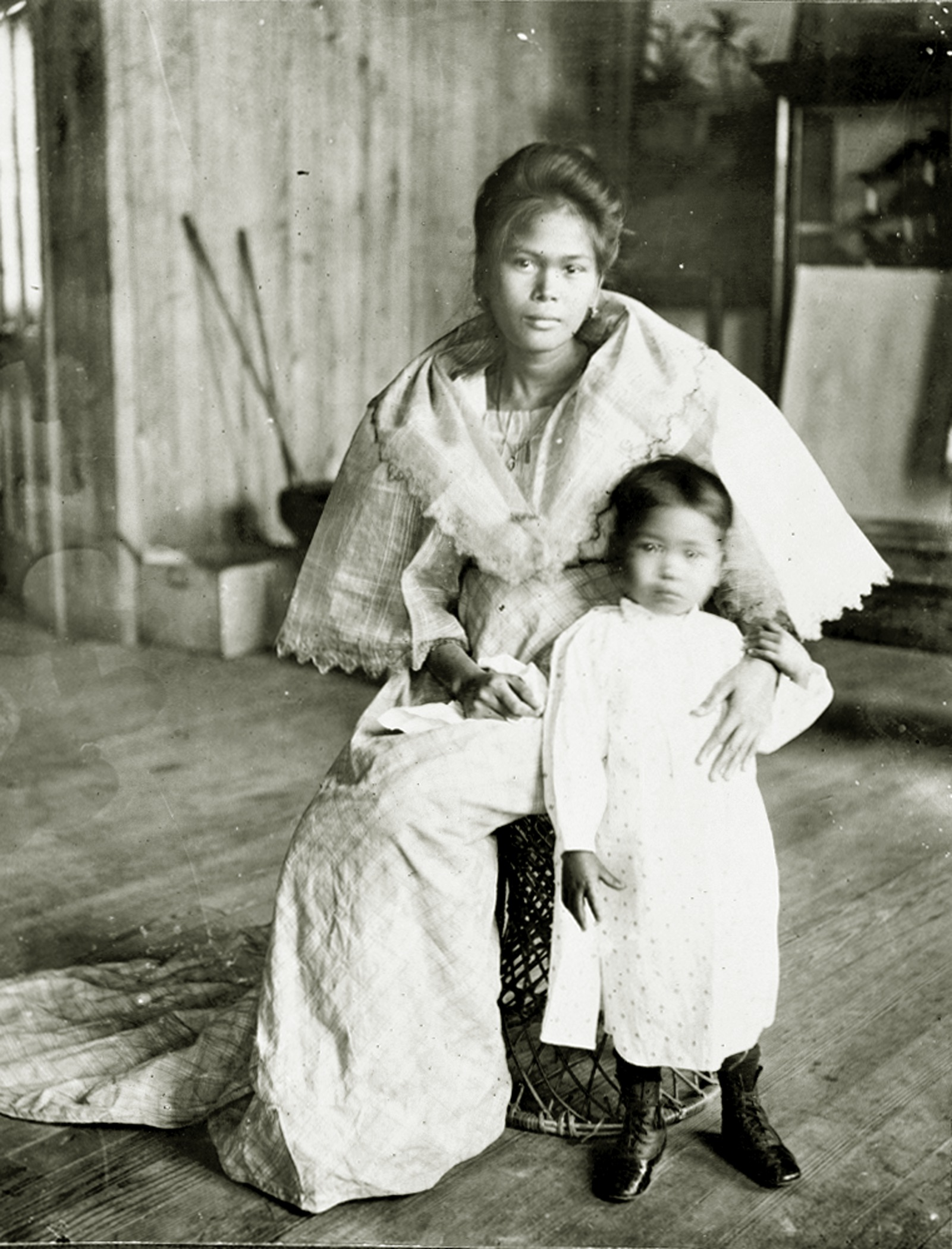 Title: "A Civilized Visayan." [Philippine Reservation in the Department of Anthropology exhibit at the 1904 World's Fair].